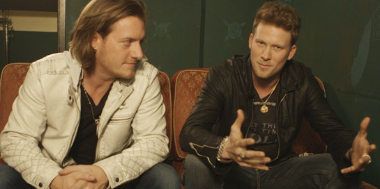 Country music duo Florida Georgia Line. Image cropped to remove excess right edge & watermark